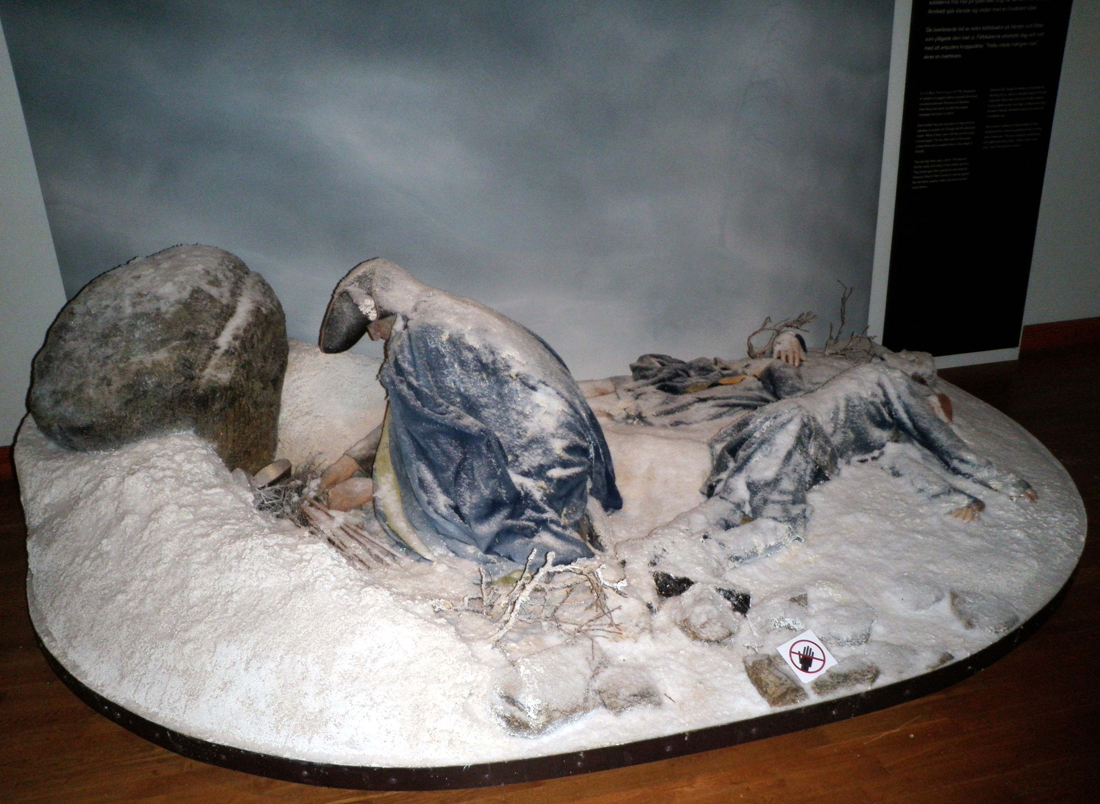 Exhibition illustrating the 1718/1719 Carolean Death March of the Great Northern War, at the Swedish Army Museum in Stockholm, Sweden. The march, a Swedish retreat from Norway, cost the lives of several thousand Swedish soldiers.